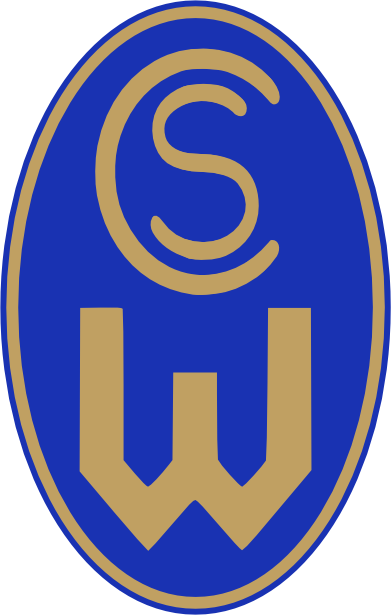 Logo of SC Wacker 1895 Leipzig.